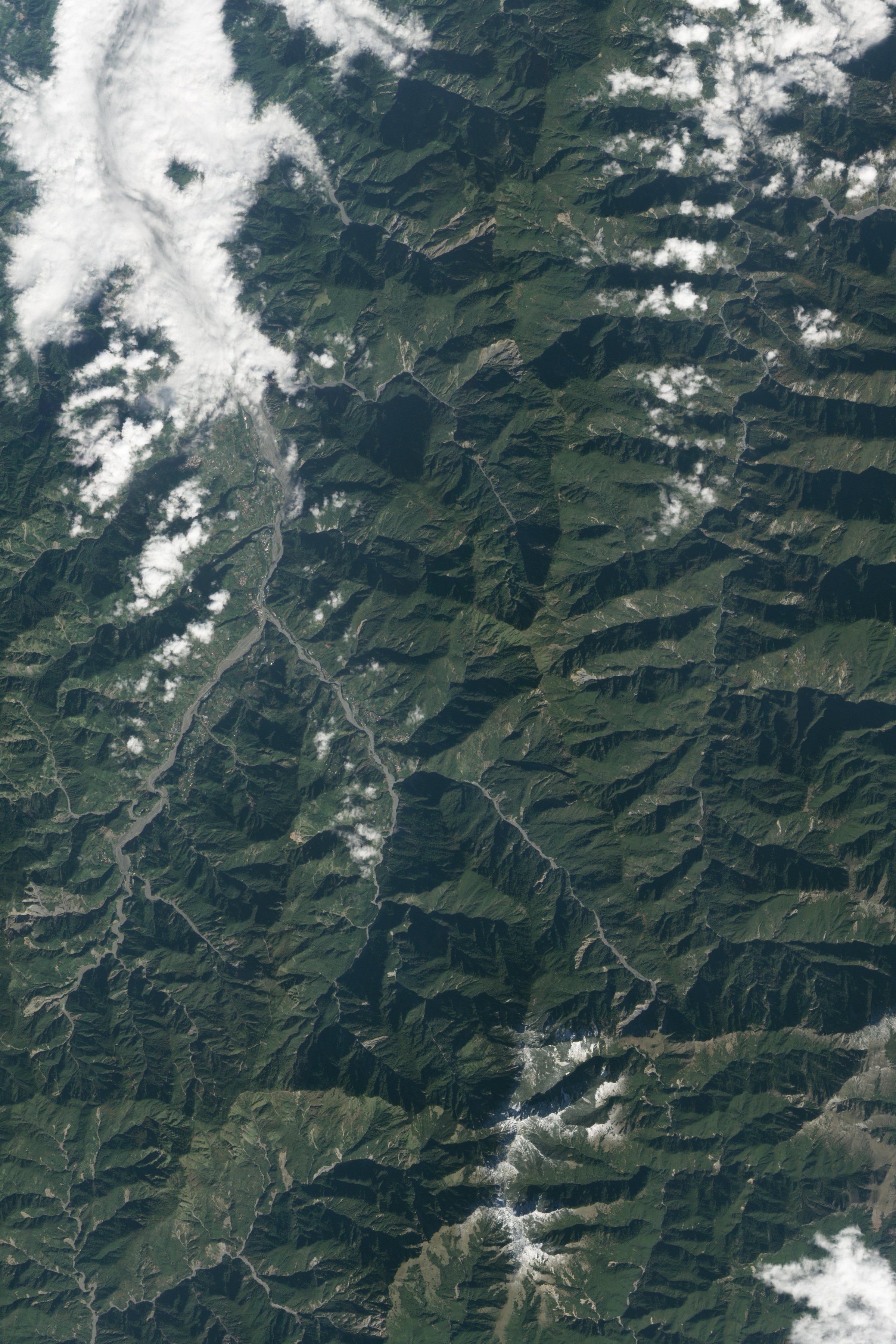 Natural-colour image of landslide scarred mountains in central Taiwan.